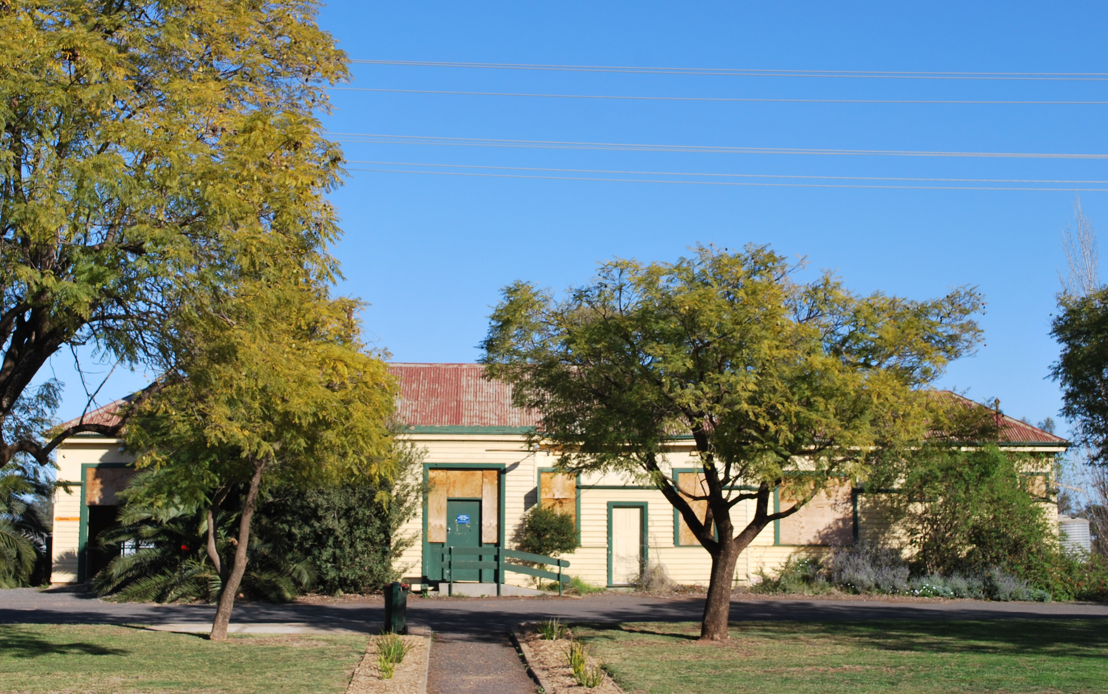 Train station at Red Cliffs, Victoria